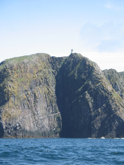 Lighthouse and south coast cliffs of Barra Head, Outer Hebrides, Scotland from the sea